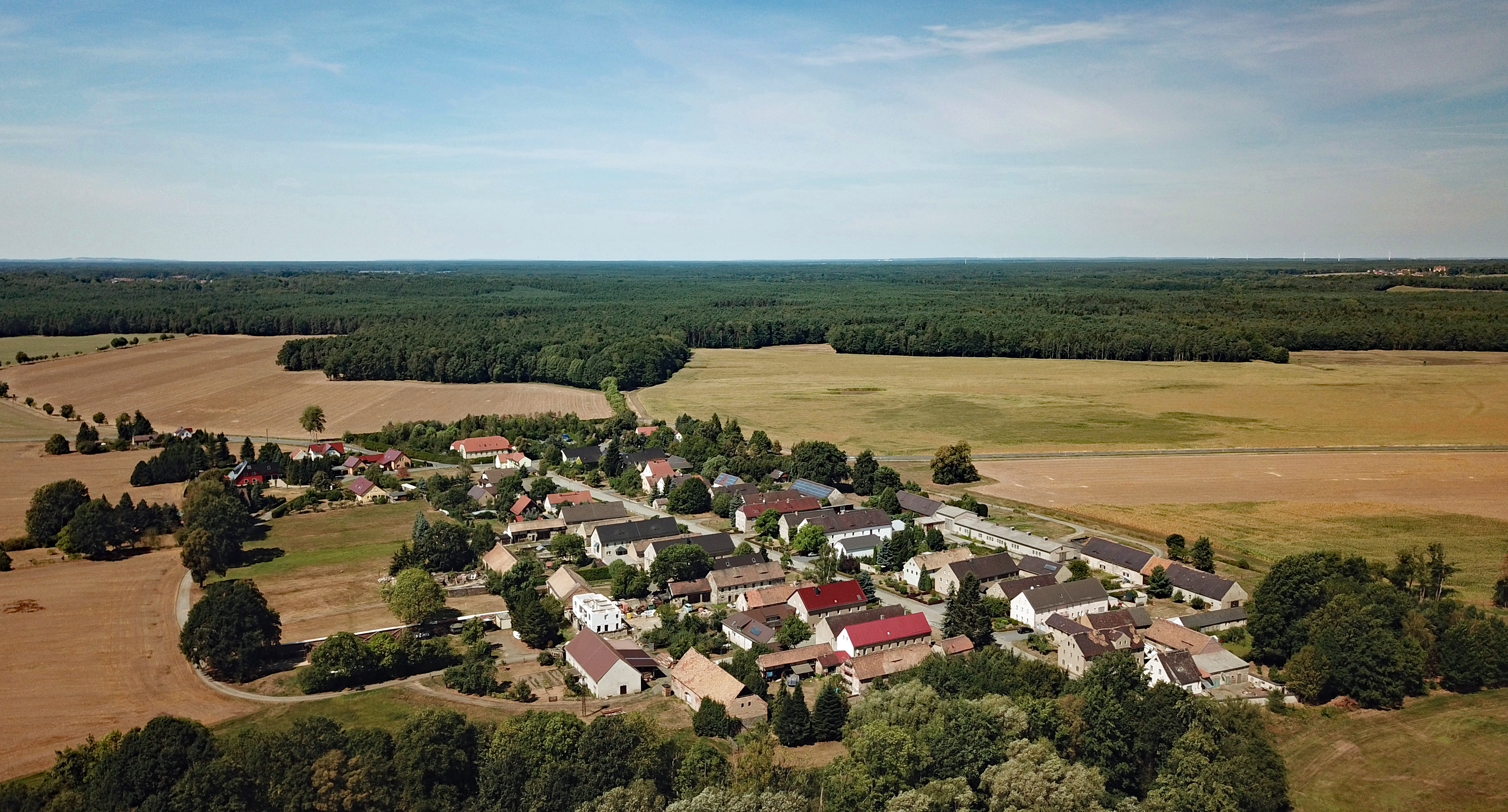 Schiedel (Kamenz, Saxony, Germany) Hornjoserbsce: Powětrowy wobraz Křidoła